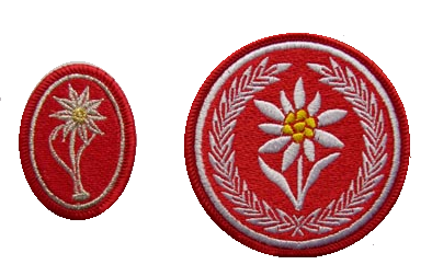 Collar badge (Szarotka) of the Polish units of Podhale Rifles, taken Silar